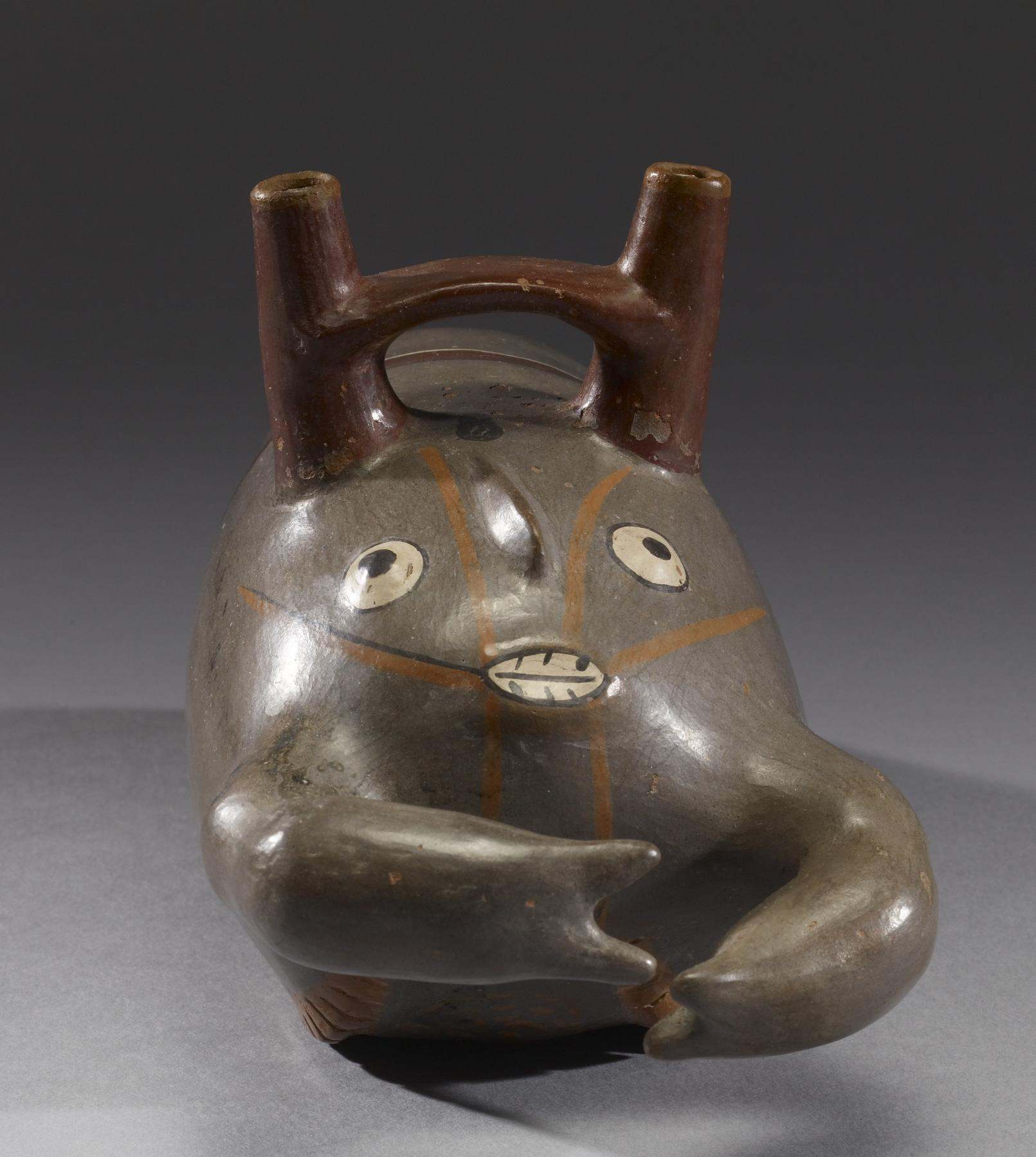 The coast of Peru is bathed in the Humboldt Current, which sweeps cold water from the Antarctic along the South American coast and northwards to Mexico and the Pacific Northwest. Rich in plankton and other marine animals, the Humboldt Current supports one of the world's most fertile fishing grounds. Early Andean peoples harvested its bounty, with fish and shellfish being a primary source of protein not only for coastal peoples but also those in the highlands. This lobster effigy vessel, with its small bridge-spout handle typical of Nasca ceramics, is a masterful example of the ceramic effigy vessel form.